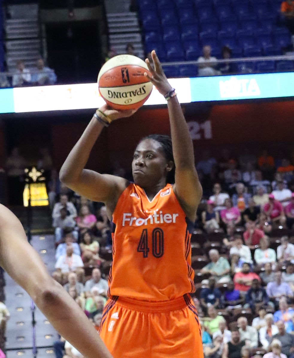 Shekinna Strickland takes a shot during a 2017 WNBA regular season game